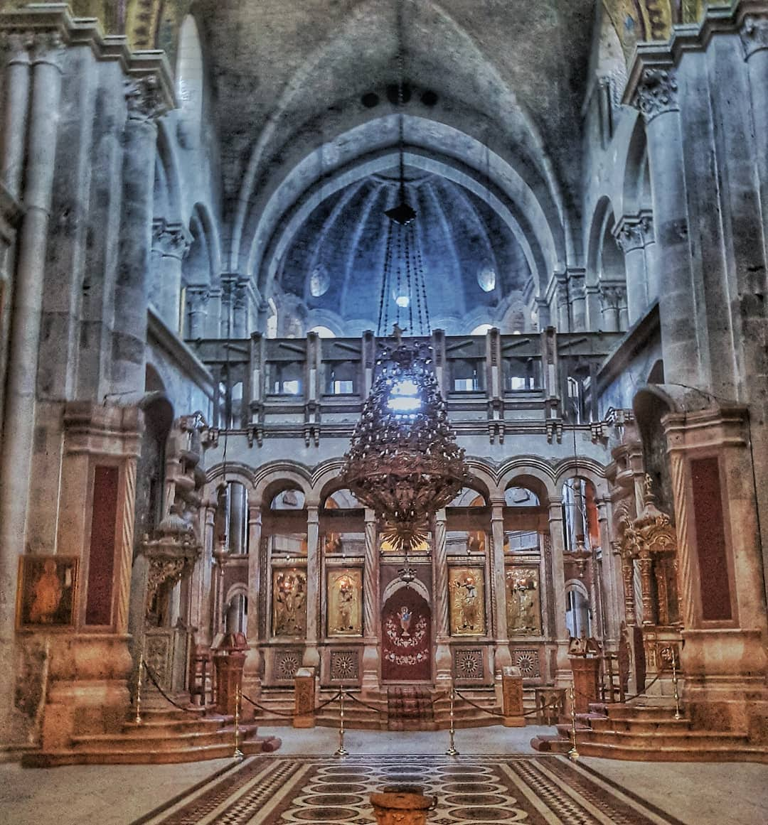 Church of the Holy Sepulcher in Jerusalem, Palestine